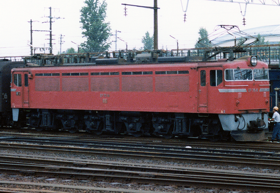 JNR Class EF70 electric locomotive EF70 10 at Toyama Station